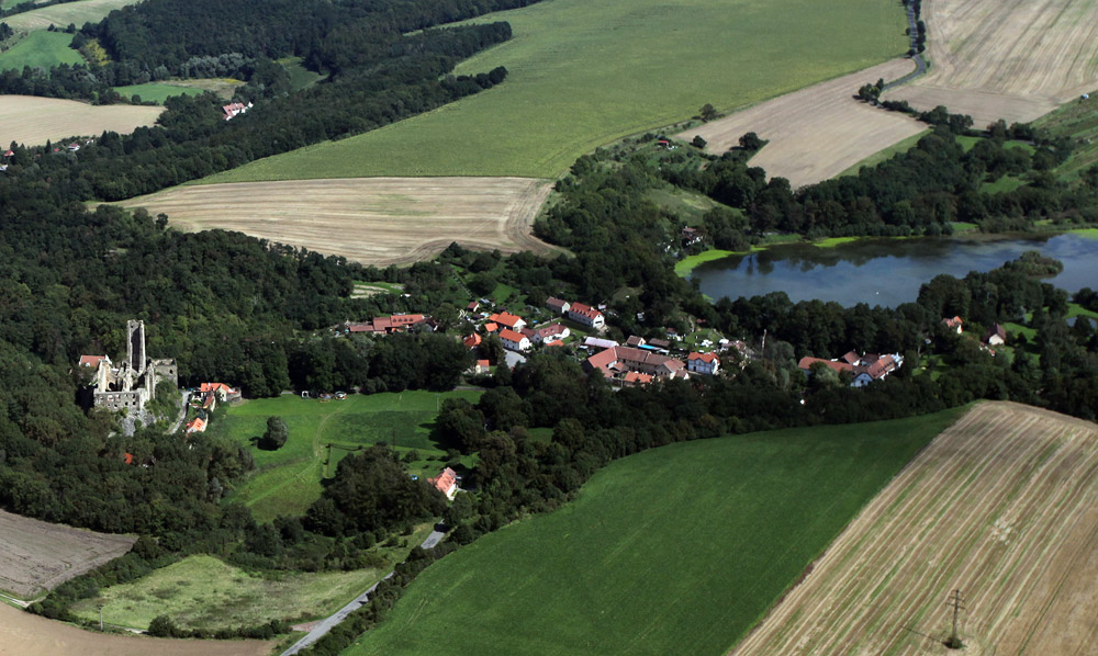 Village of Okoř, Prague-Wstd District, Czech Republic.